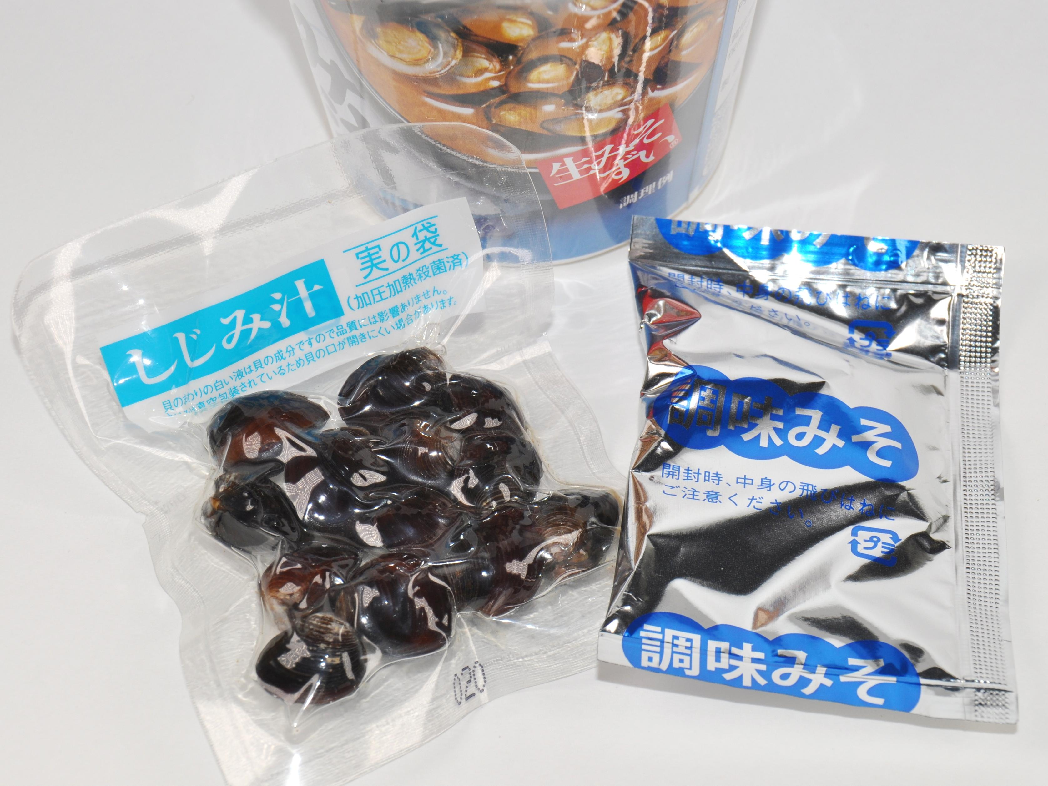 Black clams Villorita cyprinoides (Gray, 1825) from Kerala used for instant miso soup Namamisozui Shijimi-jiru (Asahimatsu Foods Co., LTD, Japan).